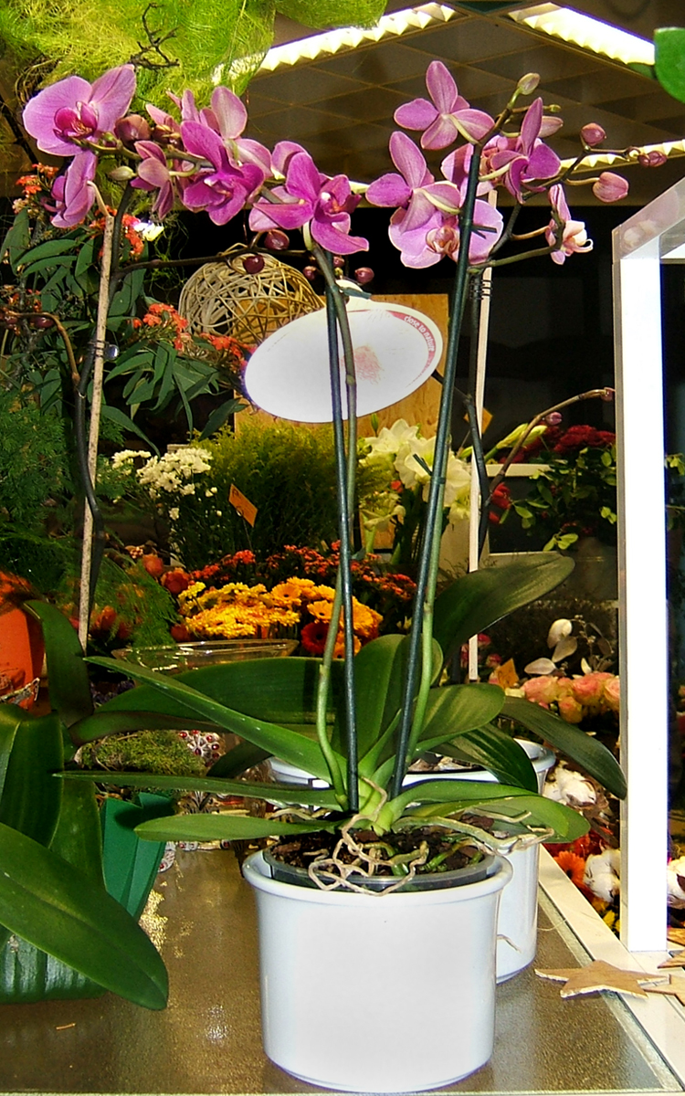 Orchid plant (Phalaenopsis) in flower shop in Advent, Germany